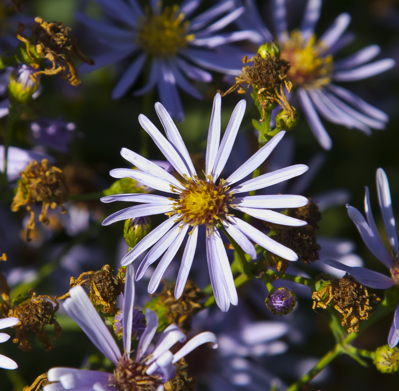 Aster laevis, Tallinn Botanic Garden, Estonia